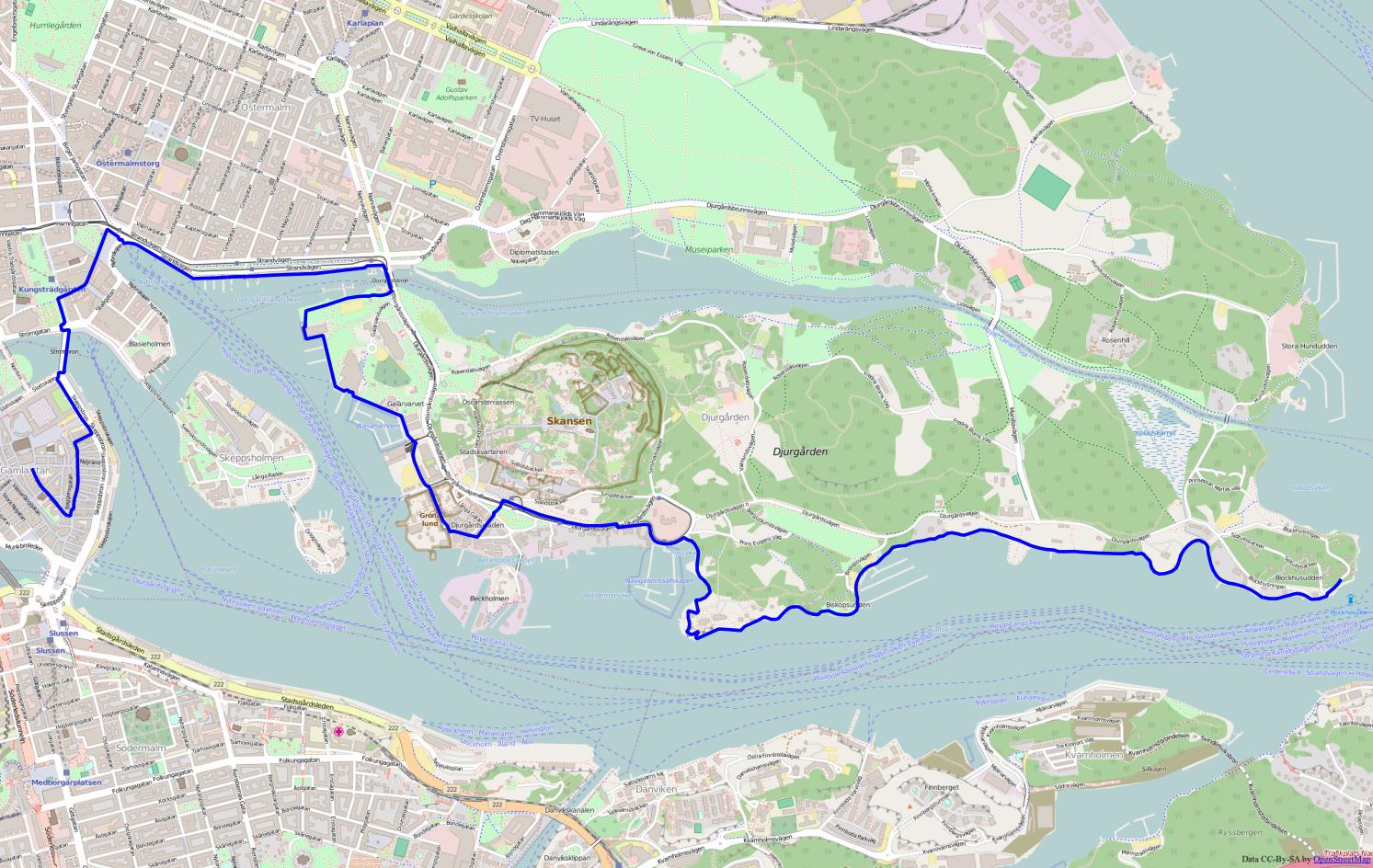 The Djurgårdsstråket hiking trail in Stockholm, Sweden.